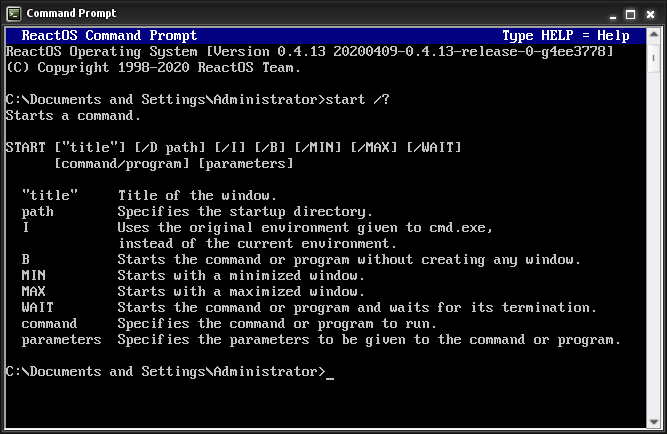 start command on ReactOS-0.4.13